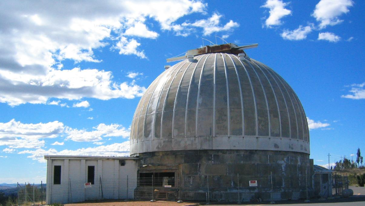 Mount Stomlo Observatory after the fires.